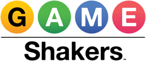 Logo of the American television show Game Shakers from Nickeloden